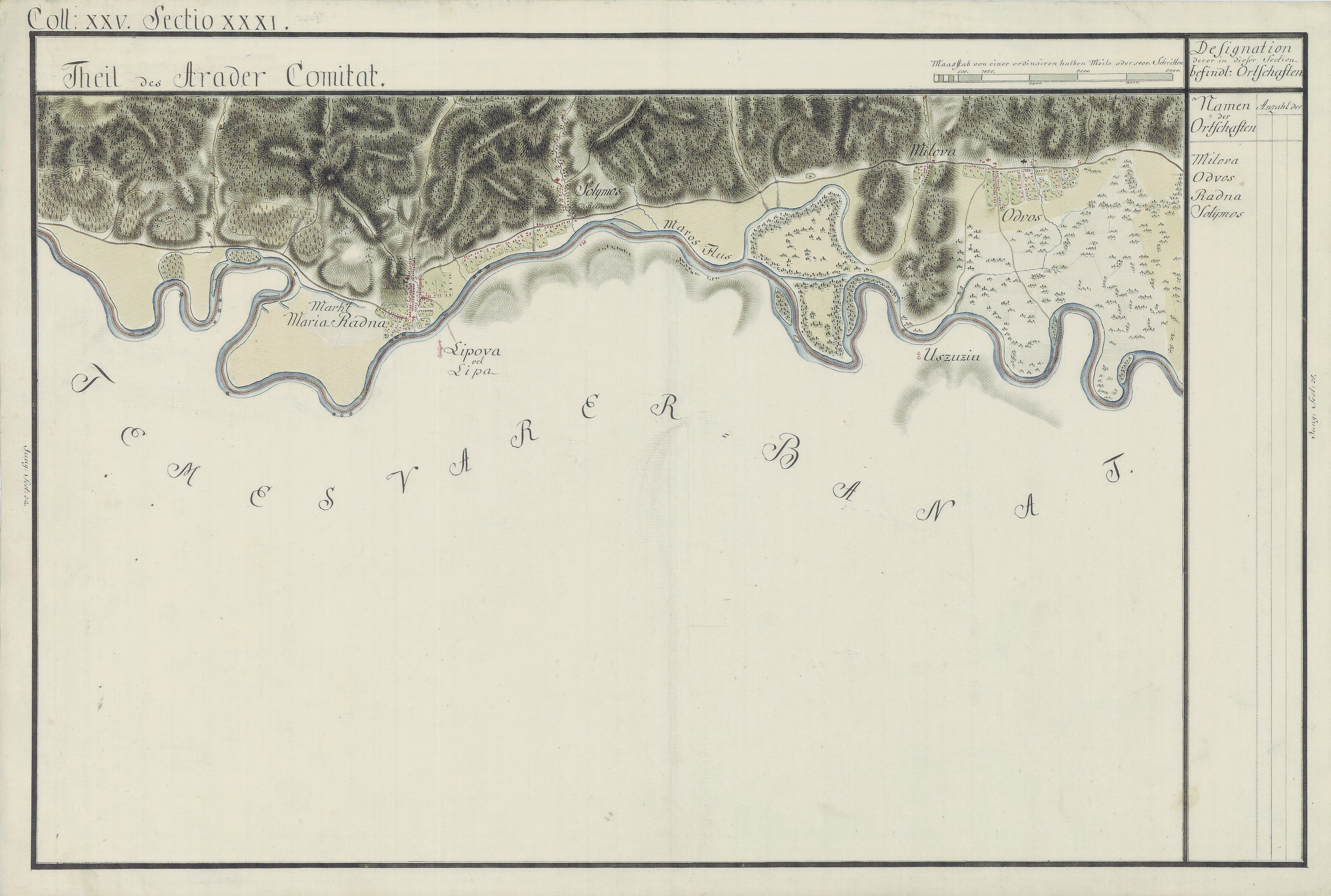 Arad County, 1782-85. Josephinische Landesaufnahme pg.25-31